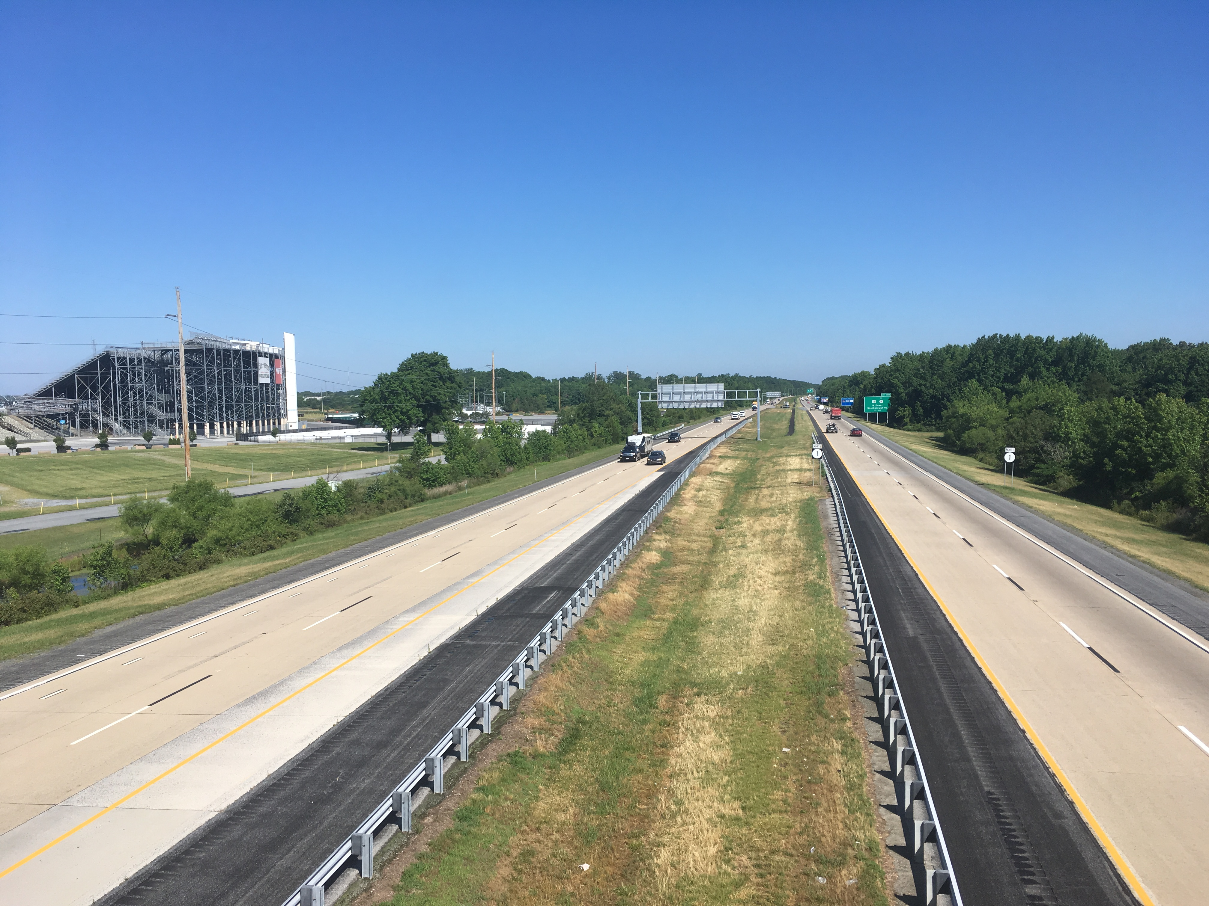 Northbound Delaware Route 1 from the Leipsic Road overpass in Dover, Delaware